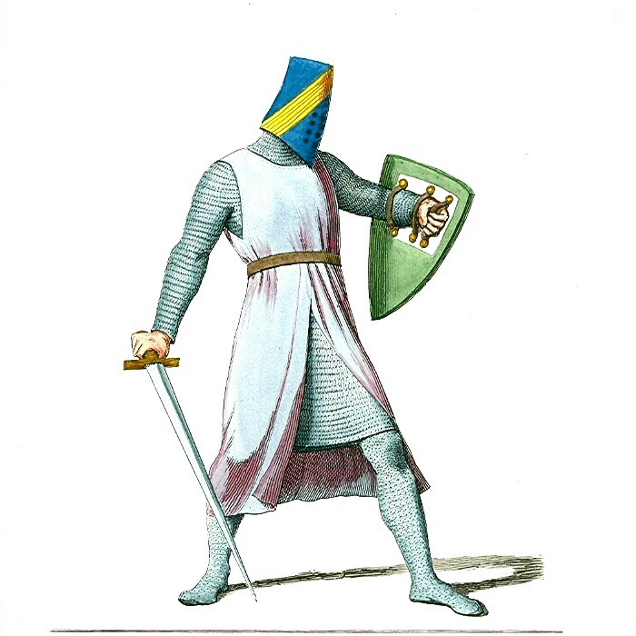 Illustration by Paul Mercuri from "Costumes Historiques" (Paris, ca.1850′s or 60’s). Scanned and archived at where it was marked as Public Domain.